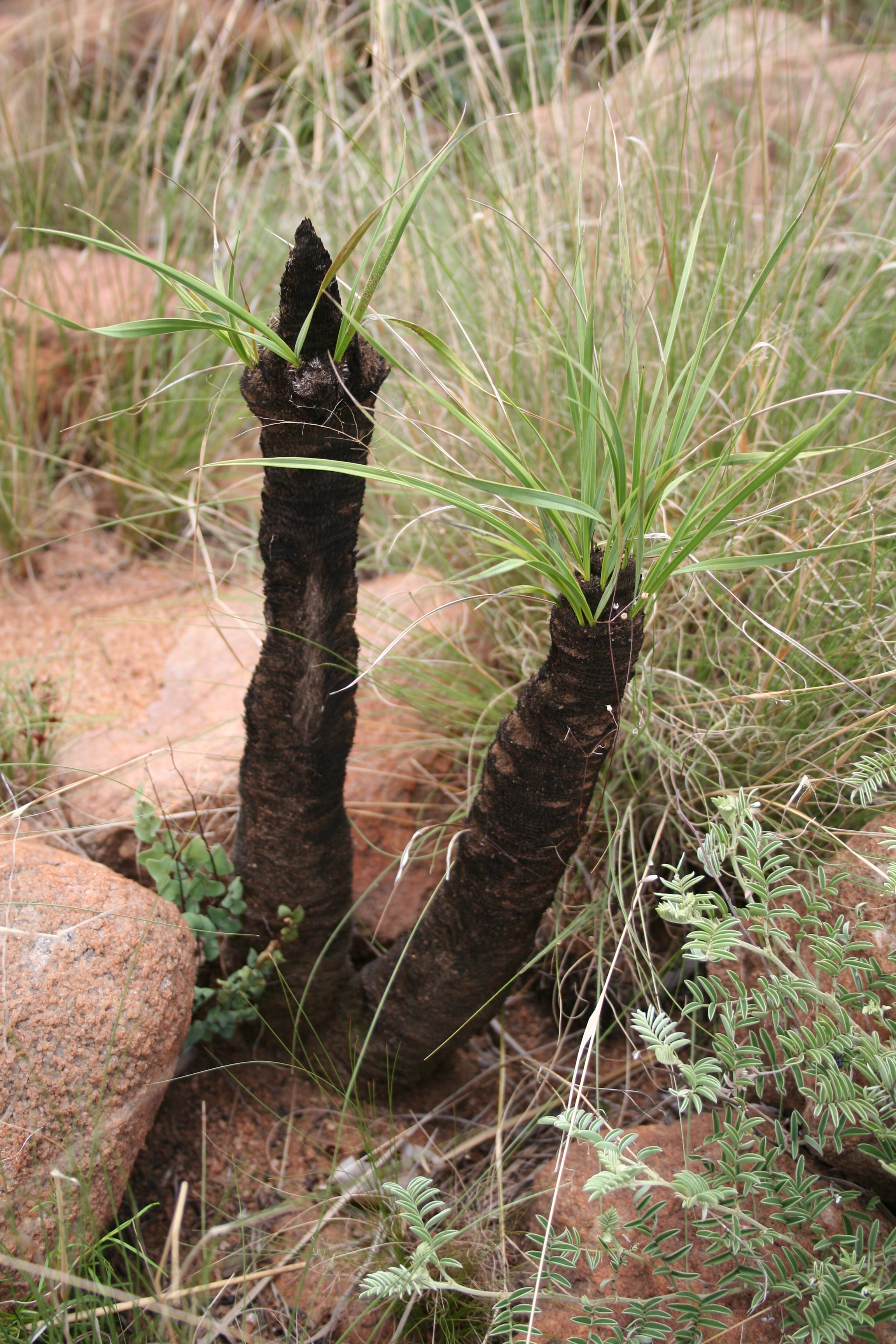 Xerophyta retinervis Bak., Mountain Sanctuary Park, Magaliesberg, South Africa